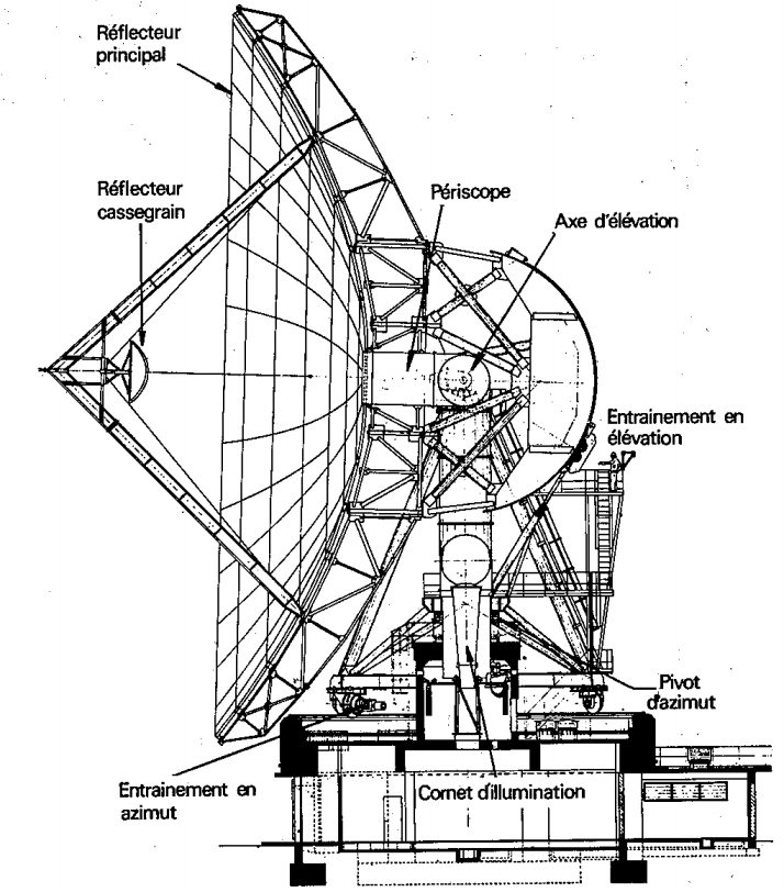 Plan architecture PB4